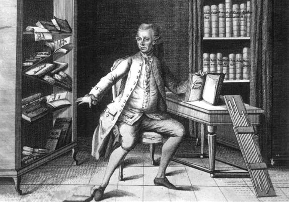 Engraving representing Anton Felkel between books and other tools.